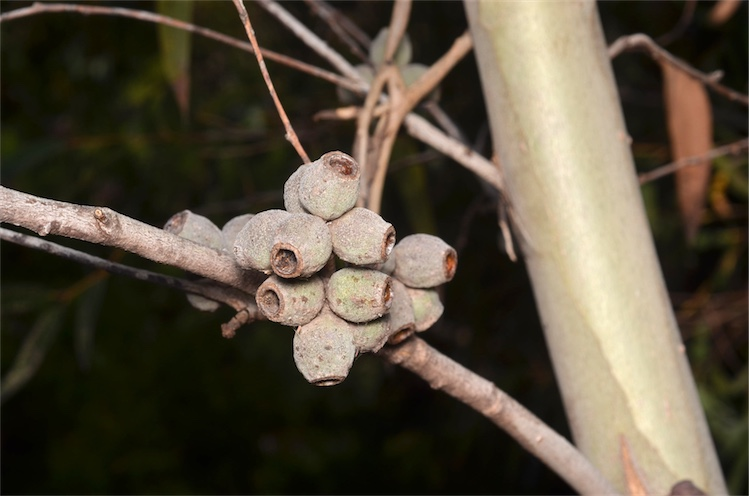 Fruit of Eucalyptus olsenii in the Australian National Botanic Gardens, Australian Capital Territory